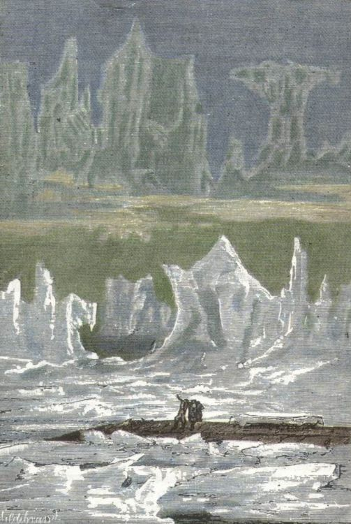 An illustration from Jules Verne's novel "Twenty Thousand Leagues Under the Sea" (1866-69) drawn by George Roux.